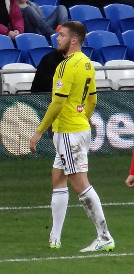 Harlee Dean, Brentford FC footballer, Cardiff City Stadium, December 2014.;Other information: Cropped from original.